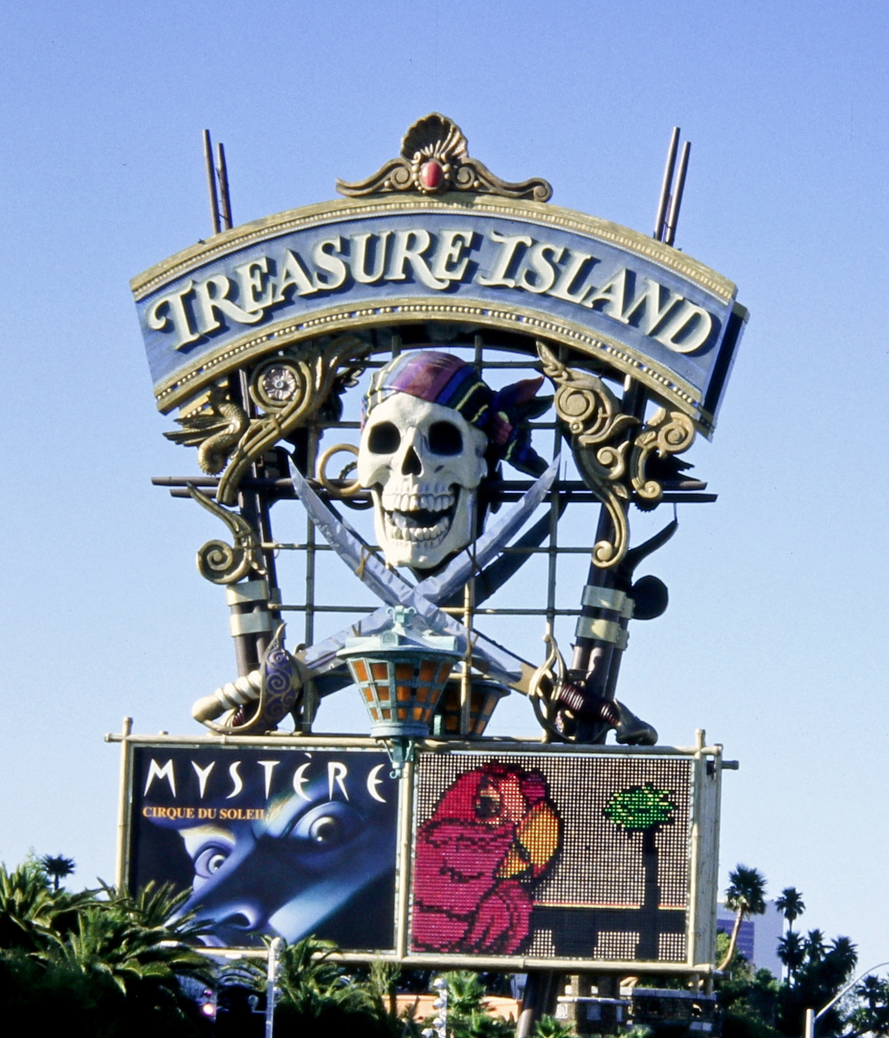 Treasure Island sign (original pirate theme) and marquee, 1995.